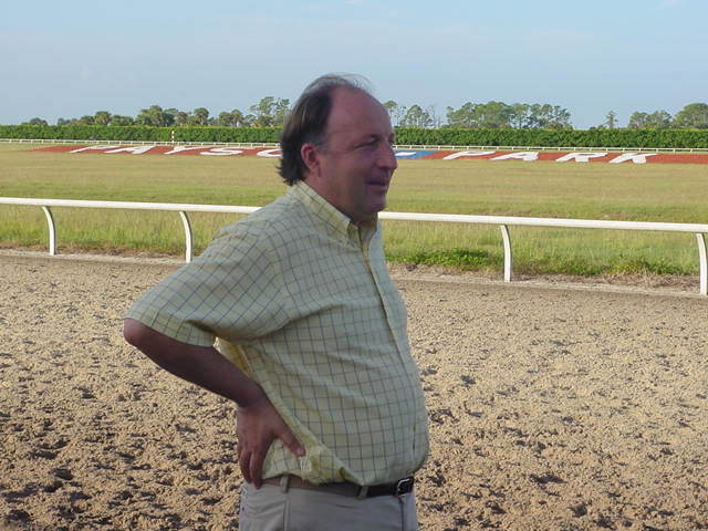 Christophe Clement at Payson Park training Center, Indiantown, Florida. One of the best training facility in North America for racehorses.